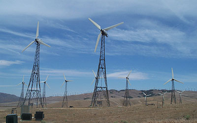 Snapshot of the wind turbines nestled in the mountains of Tehachapi, I took this shot while stopped on the side of the road